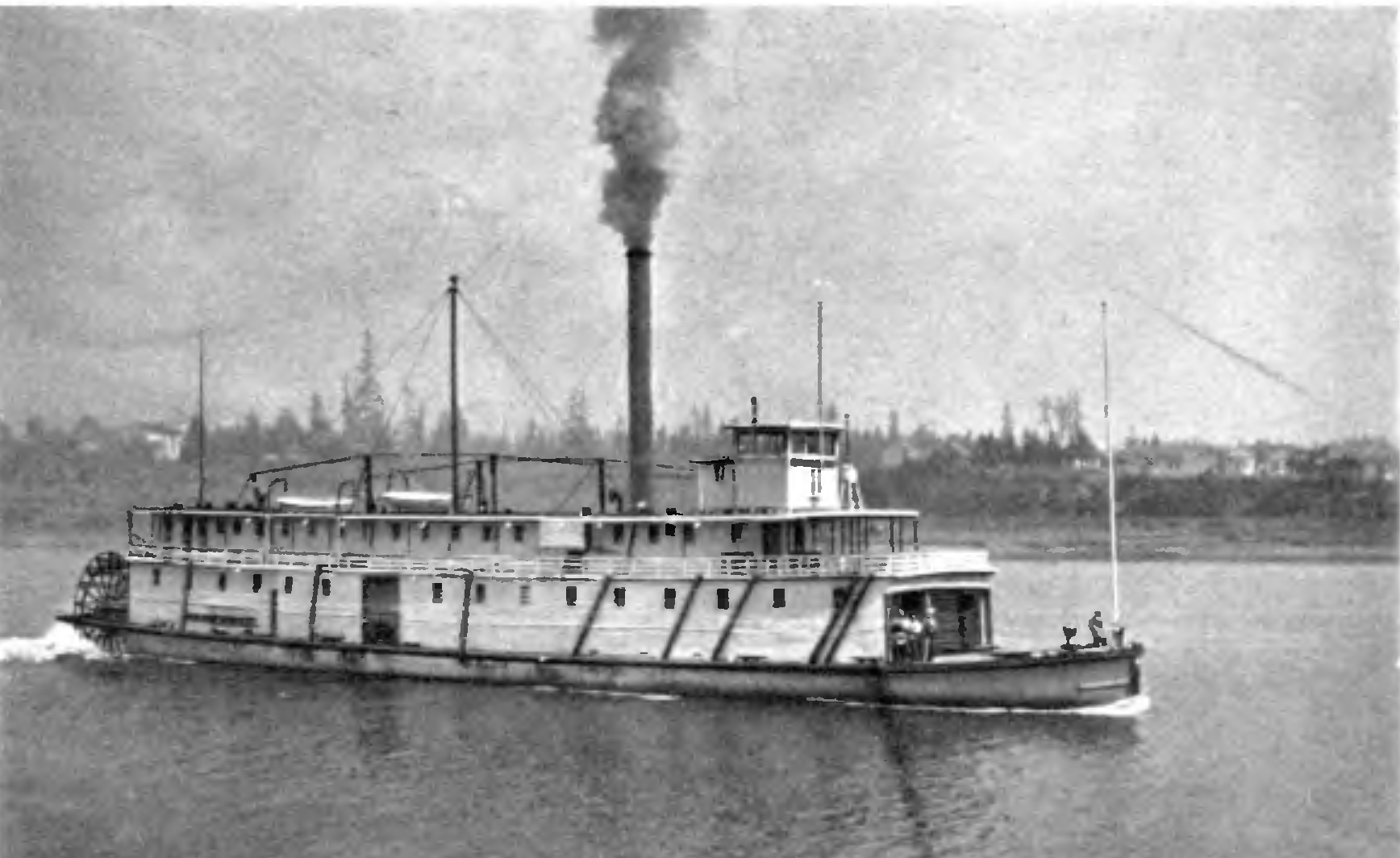 photograph of Willamette Chief sternwheeler on Oregon rivers